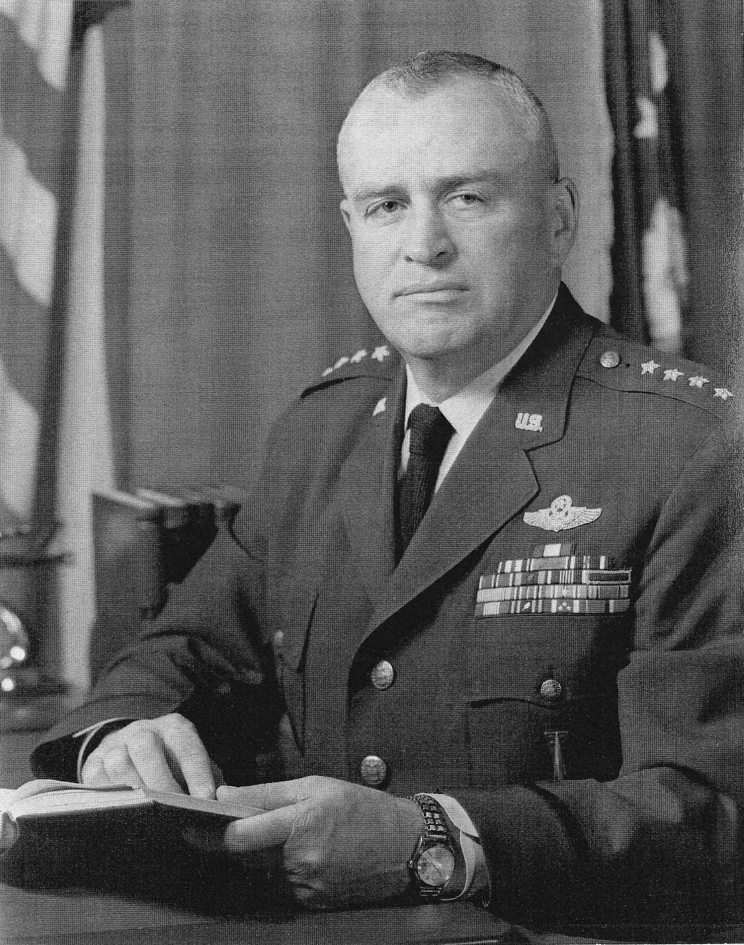 General William H. Blanchard, VCSAF in an official USAF photo. Original in color. NARA Citation 342-B-12-004-KE16732